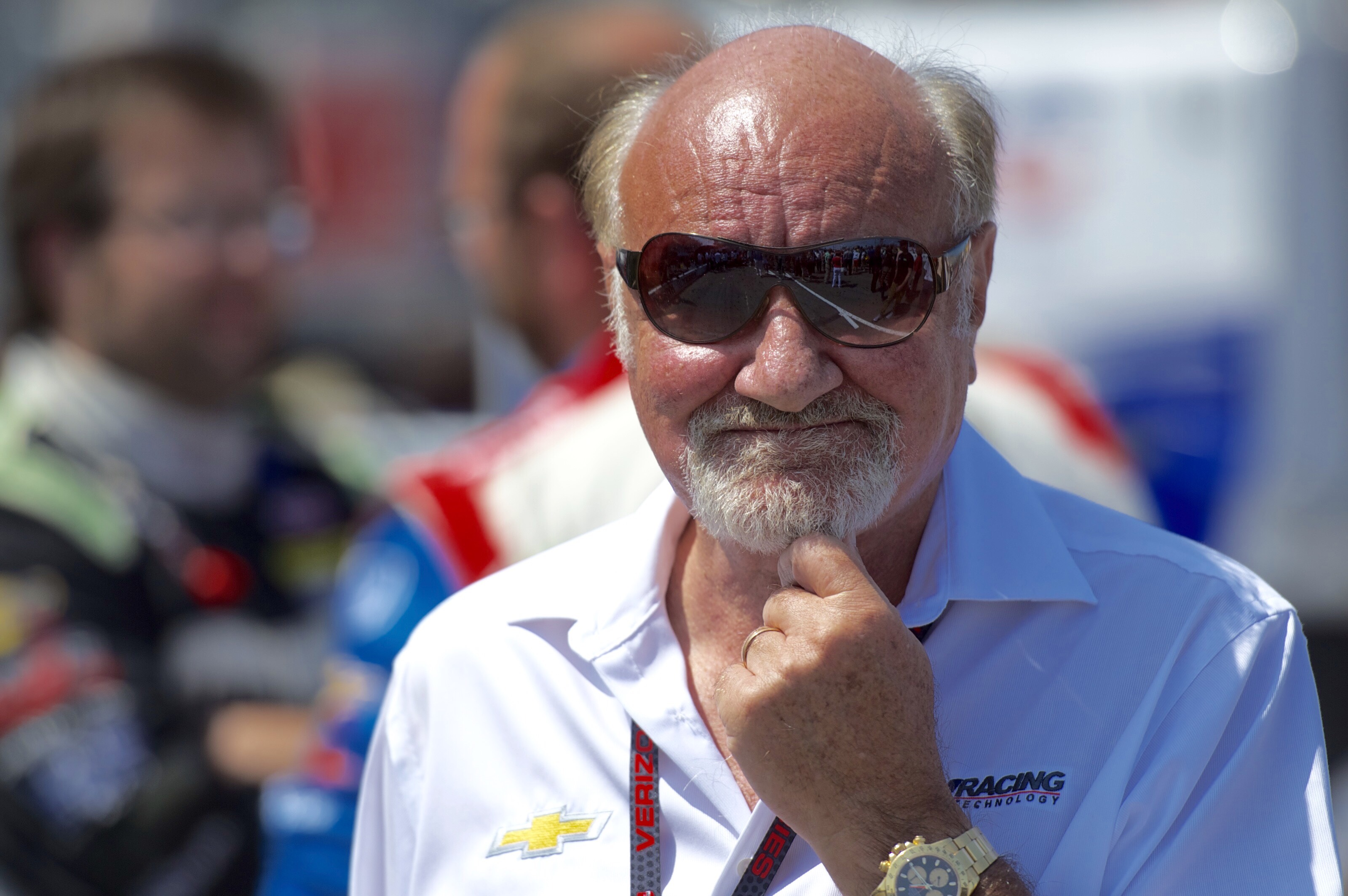 Kevin Kalkhoven at Indianapolis Motor Speedway in 2011